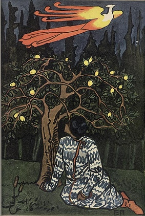 Illustration for the Firebird